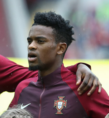 Portugal - Mexico, 2 Jul 2017